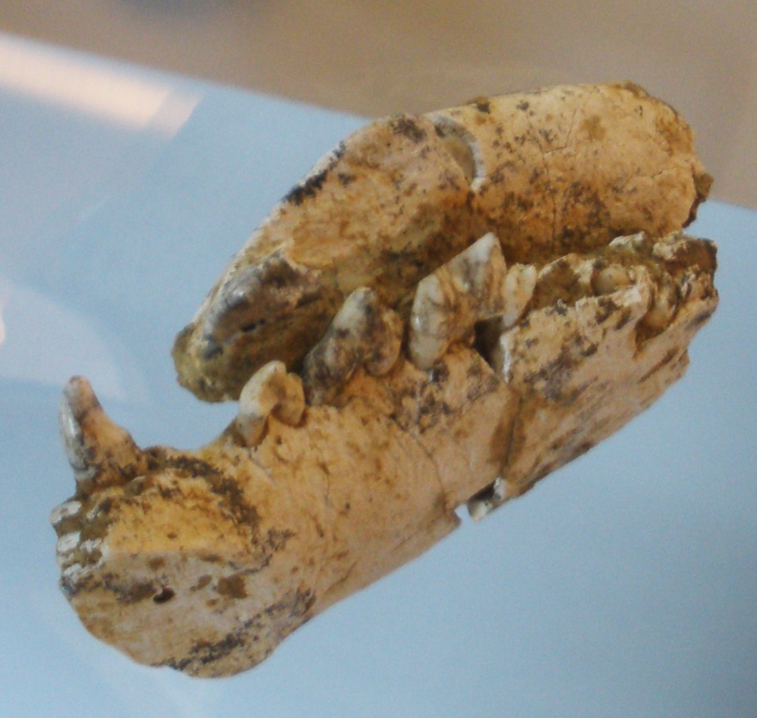 fossil Chasmaportethes